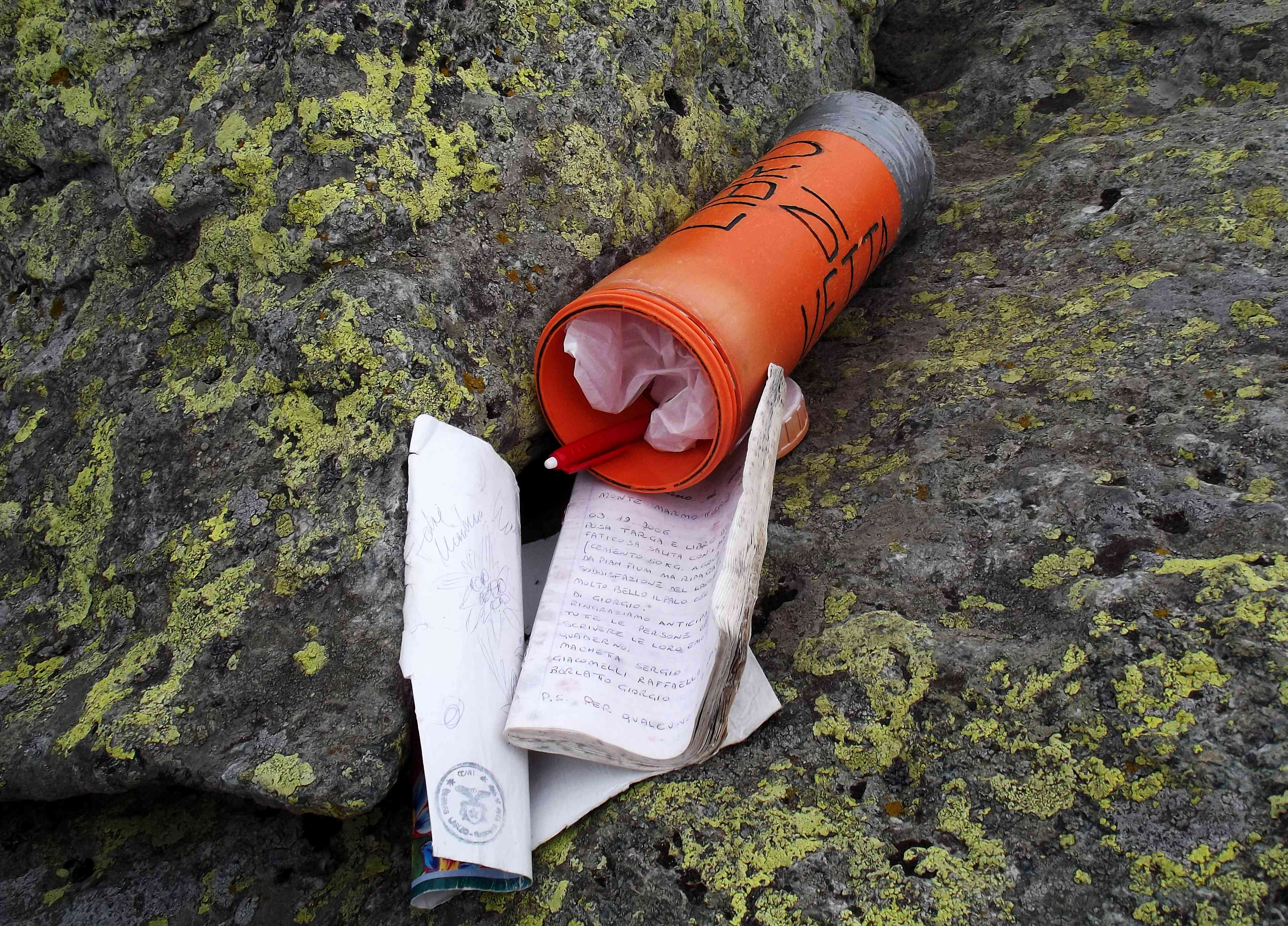 Monte Marmottere (Graian Alps, Italy): summit register